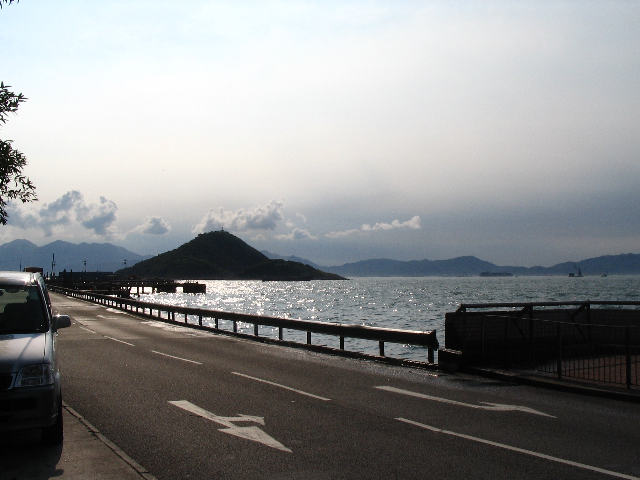 Photo of New Praya, Kennedy Town